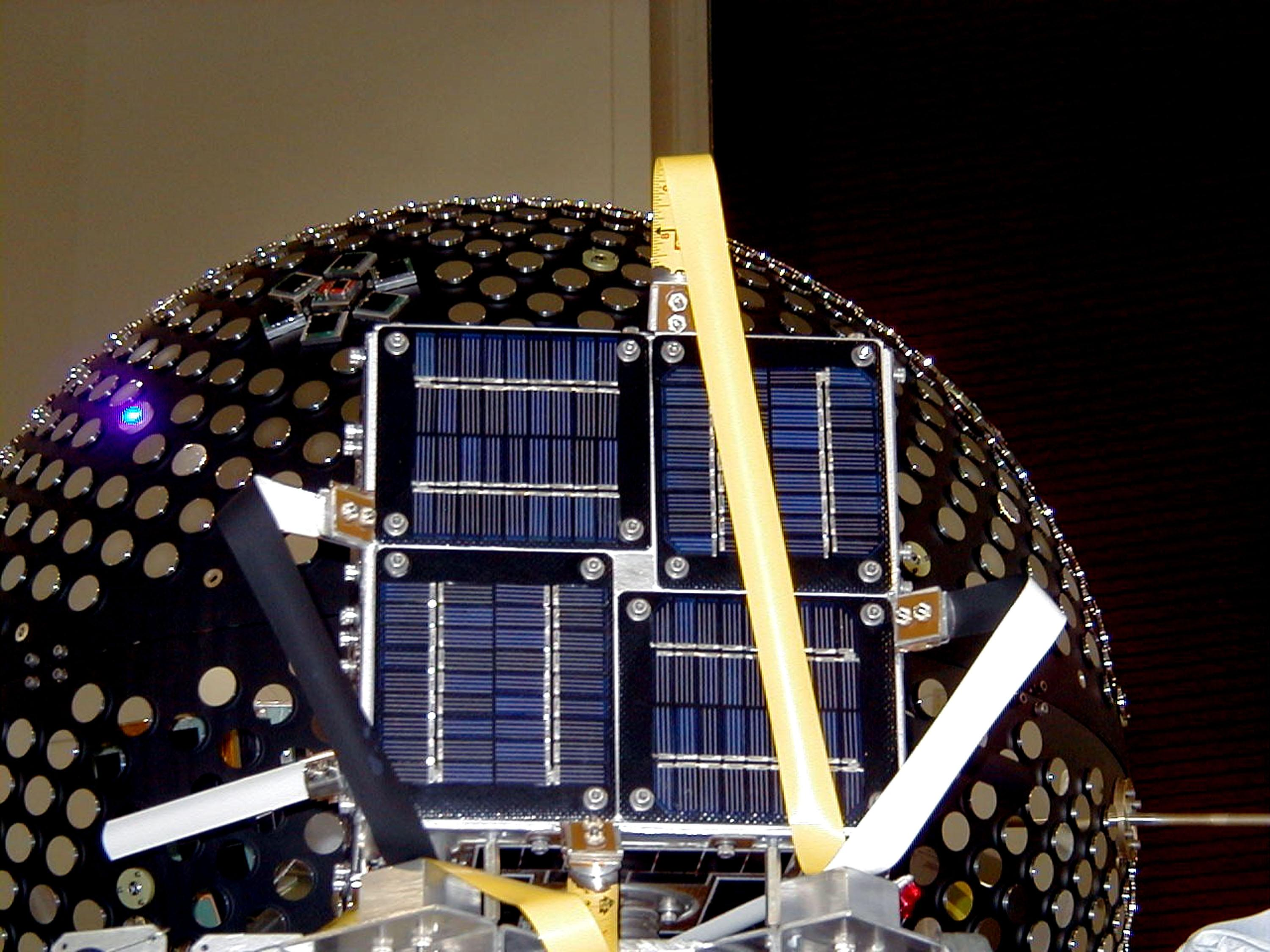 KODIAK ISLAND, Alaska -- The PICSat and Starshine 3 (back) payloads wait for their launch aboard the Athena 1 launch vehicle at Kodiak Island, Alaska, as preparations to launch Kodiak Star proceed. The first orbital launch to take place from Alaska's Kodiak Launch Complex, Kodiak Star is scheduled to lift off on a Lockheed Martin Athena I launch vehicle on Sept. 17 during a two-hour window that extends from 5 p.m. to 7 p.m. p.m. ADT. The payloads aboard include the Starshine 3, sponsored by NASA, and the PICOSat, PCSat and Sapphire, sponsored by the Department of Defense (DoD) Space Test Program.